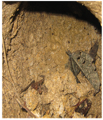 Tapir Footprint